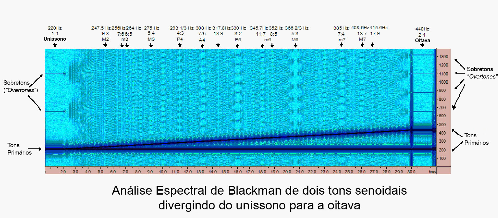 Blackman spectral analysis of two sine tones diverging from unison to octave